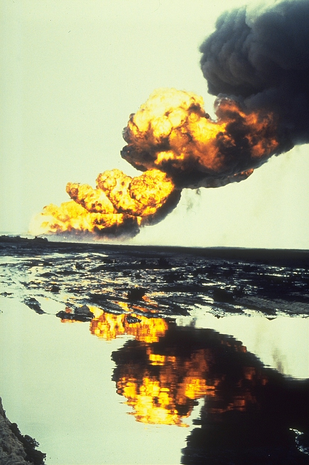 Gulf War incident, Kuwait and Persian Gulf. Bergan oil field fire - showing reflection of fire in oil.